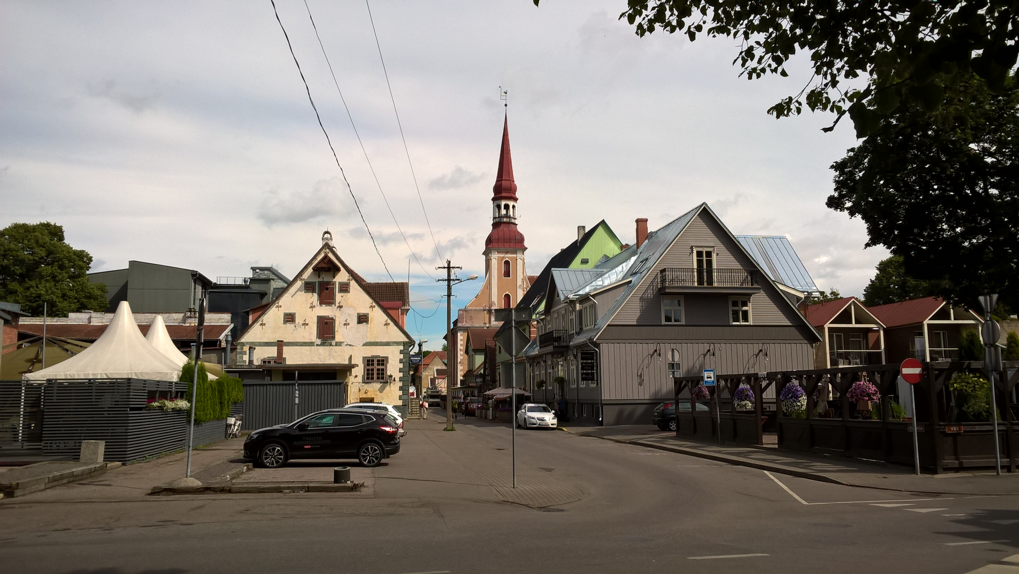 View of Elizabeth church in Pärnu